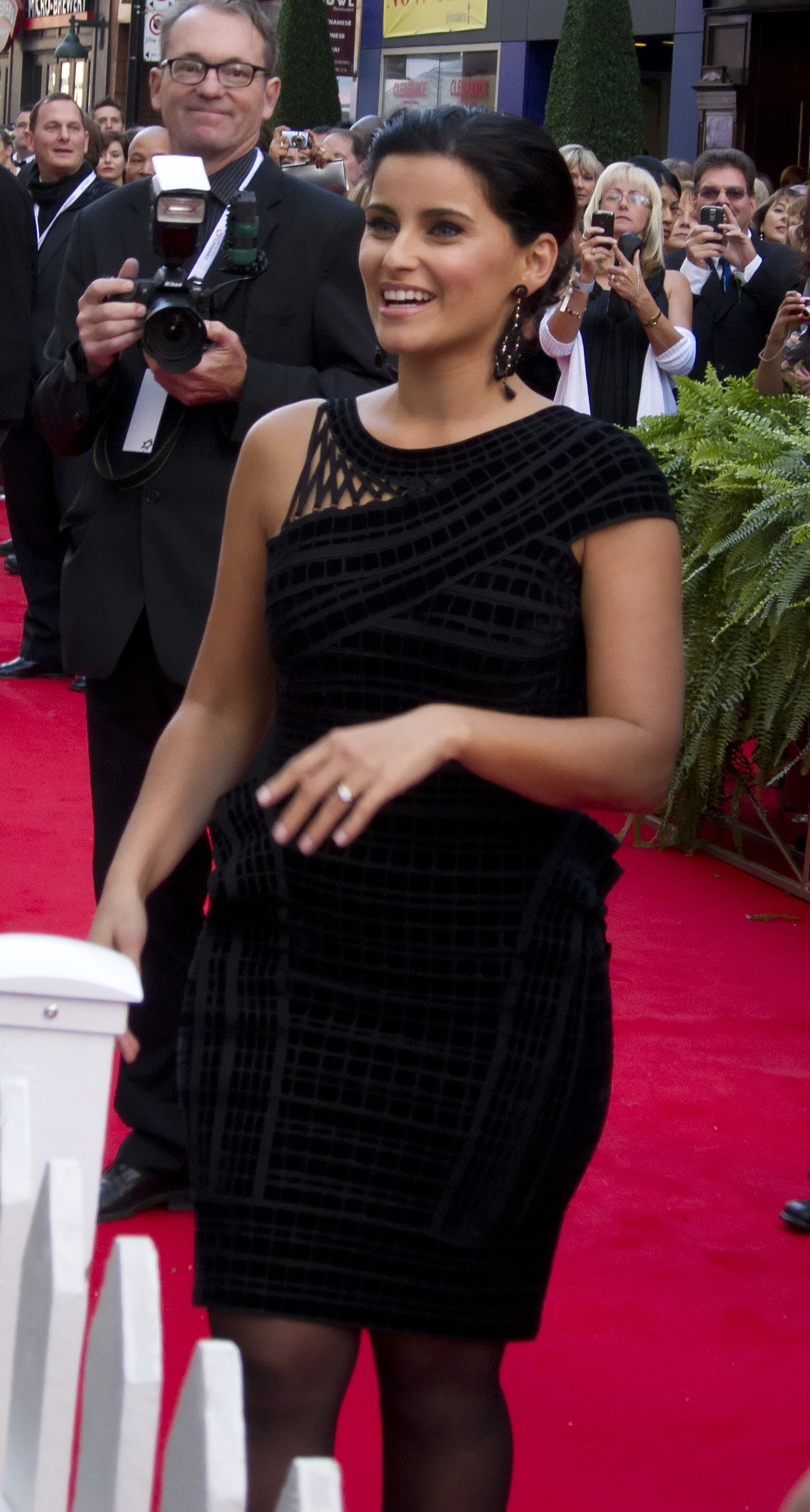 Singer Nelly Furtado at the Canada's Walk of Fame induction ceremony